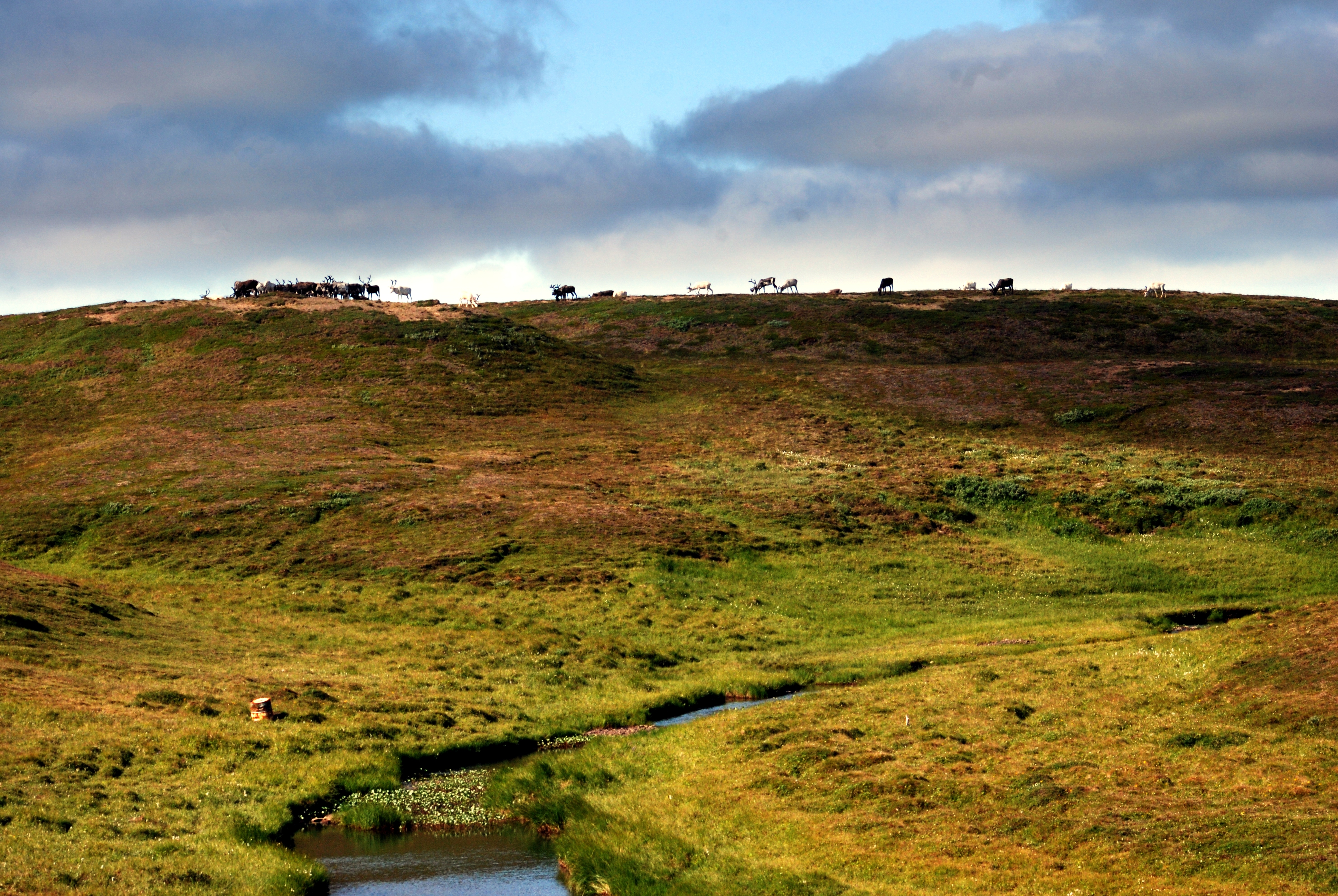 Zapolyarny District, Nenets Autonomous Okrug, Russia